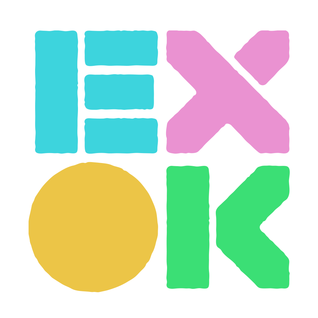 The logo of the video game developer Extremely OK Games, created by Cory Schmitz